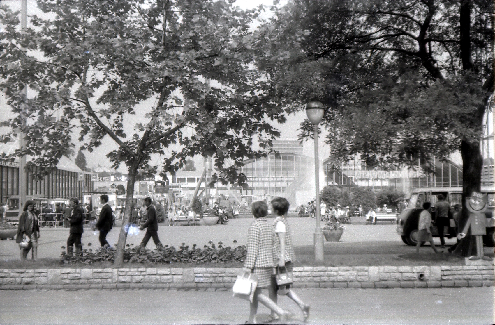 Budapest International Fair, 1969